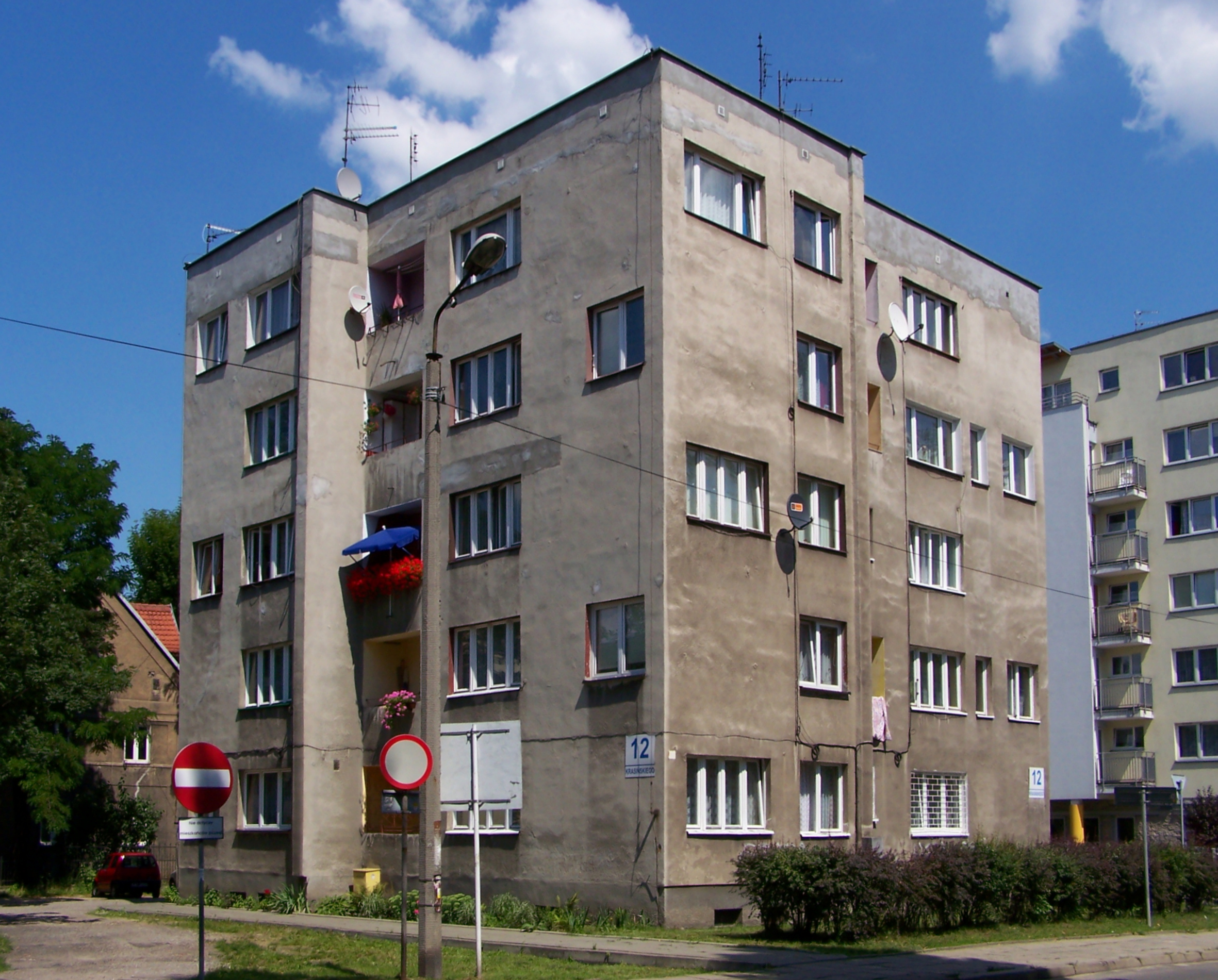 Krasińskiego Street in Katowice (Poland).